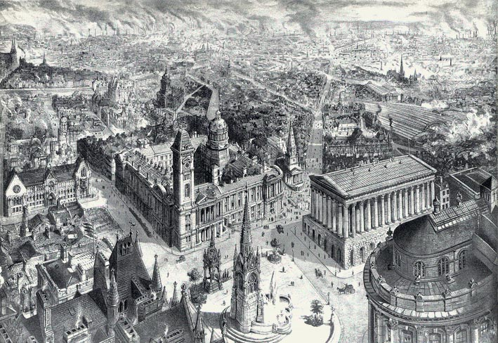 Bird's Eye View of Birmingham in 1886 by H. W. Brewer. Note: Birmingham city centre in 1886 looking over Chamberlain Square with the newly extended Council House and art gallery (in the centre), the Town Hall (the building with pillars on the right) and Christ Church between them (demolished - now Victoria Square). The Chamberlain memorial which is at the bottom in the centre. Centre of left margin with a rose window is the Birmingham School of Art. New Street station and St Martin in the Bull Ring church are above the Town Hall. St Philip's Cathedral above the square tower of the Council House. Saint Chad's Cathedral can be seen in the background in the top-left corner of the image. The gabled roof of Mason Science College occupies the lower left corner. The rounded end of the original public library occupies the lower right corner. Old drawing by H. W. Brewer, taken from "The Graphic", 1886.